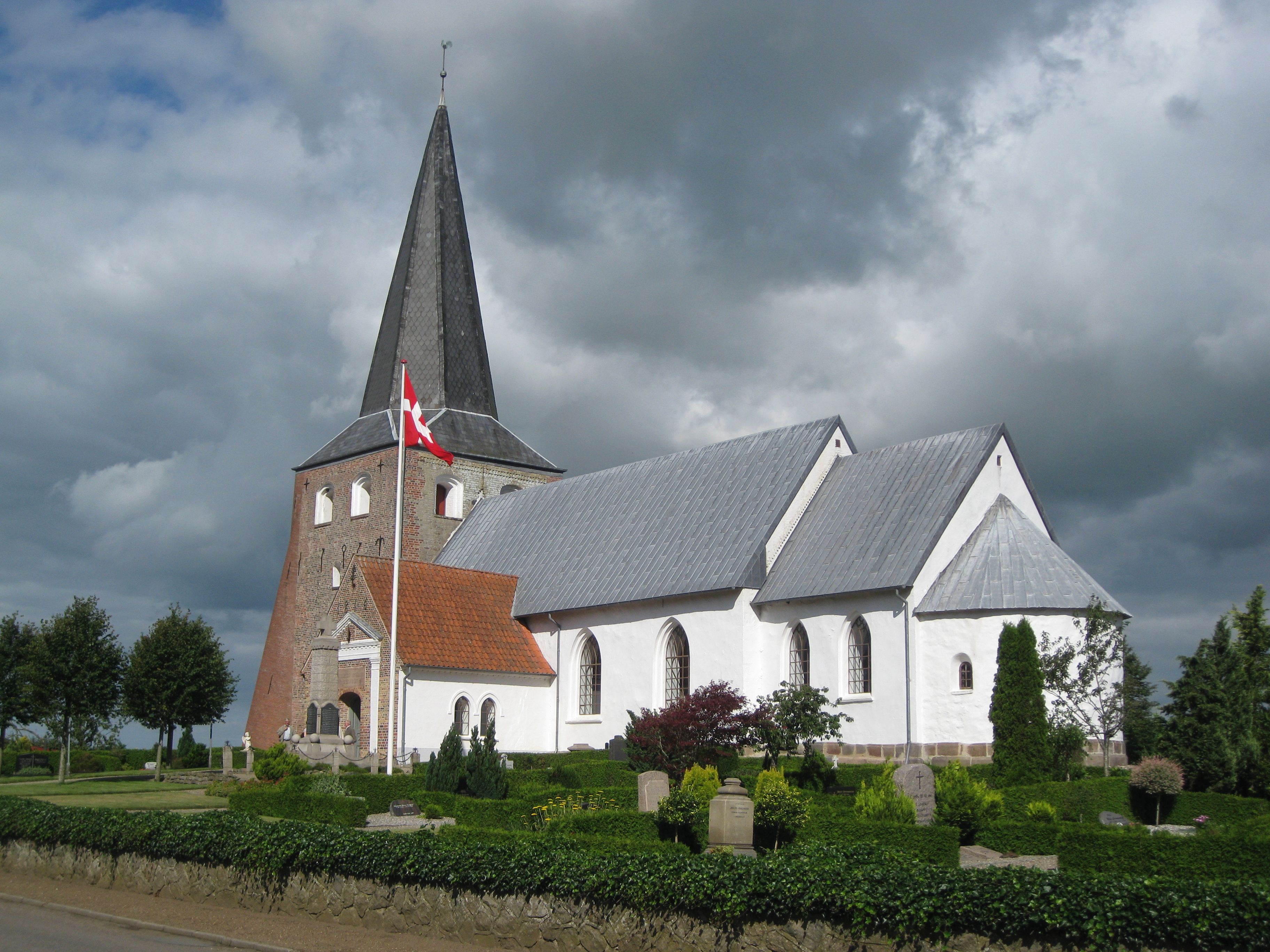 The church "Bjolderup Kirke" nearby the small town "Bolderslev". The town is located in Southern Jutland in south Denmark.